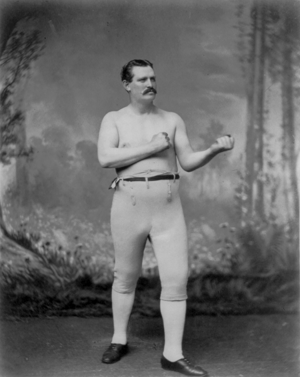 Paddy Ryan, ex-champion heavy-weight pugilist of America